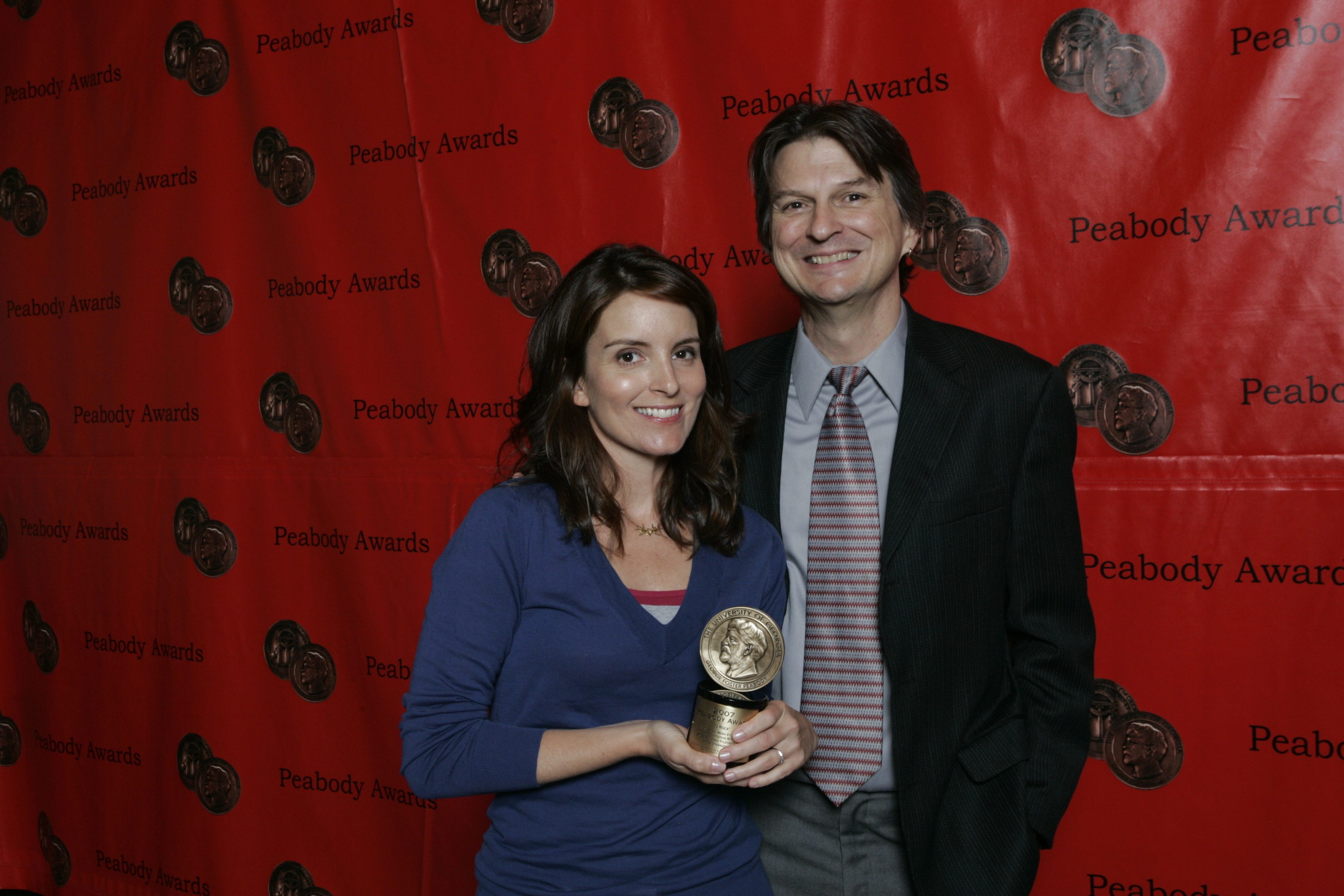 Tina Fey and Frazier Moore 67th Annual Peabody Awards Luncheon Waldorf=Astoria Hotel New York, NY USA June 16, 2008